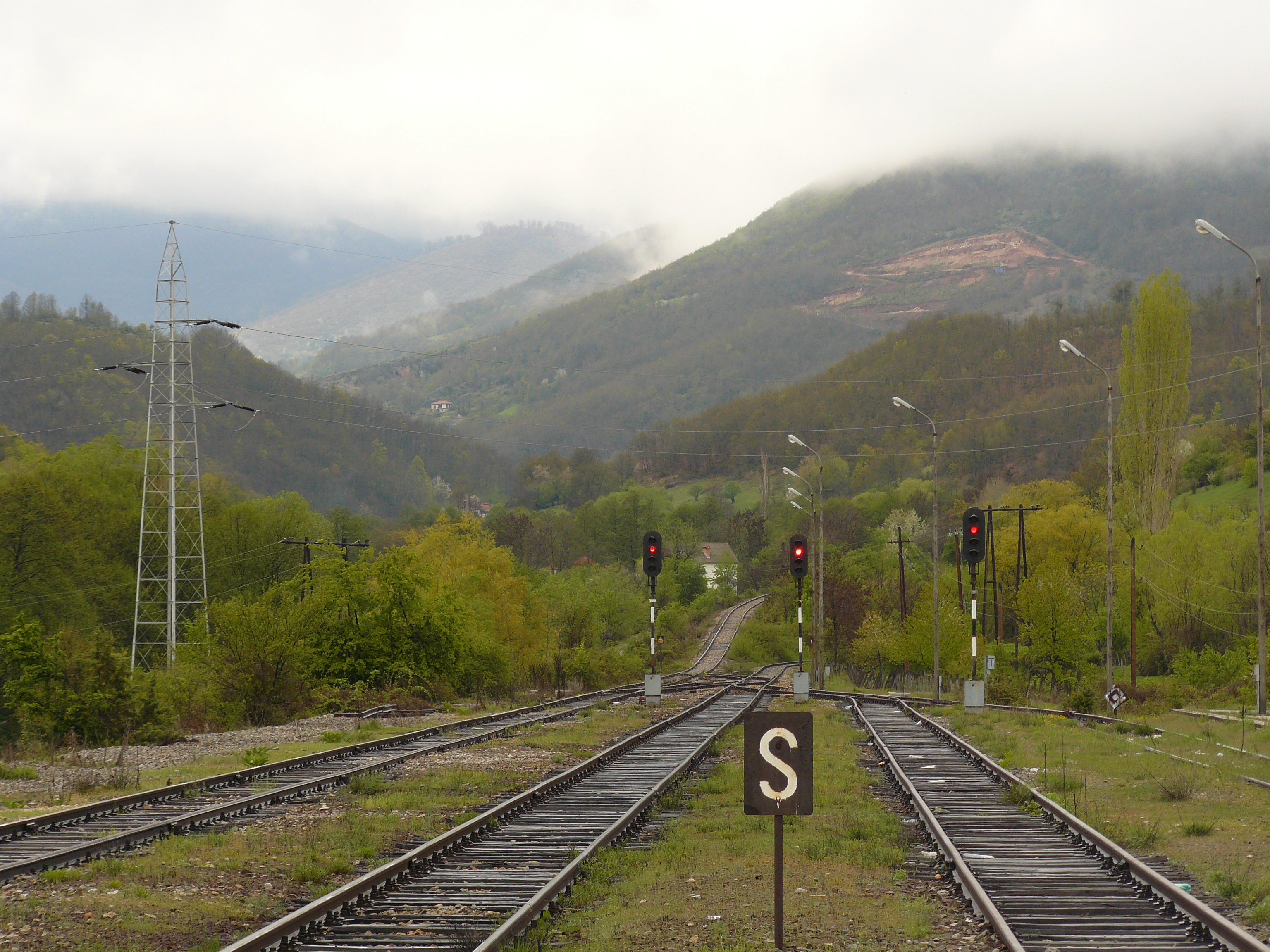 Zajas train station